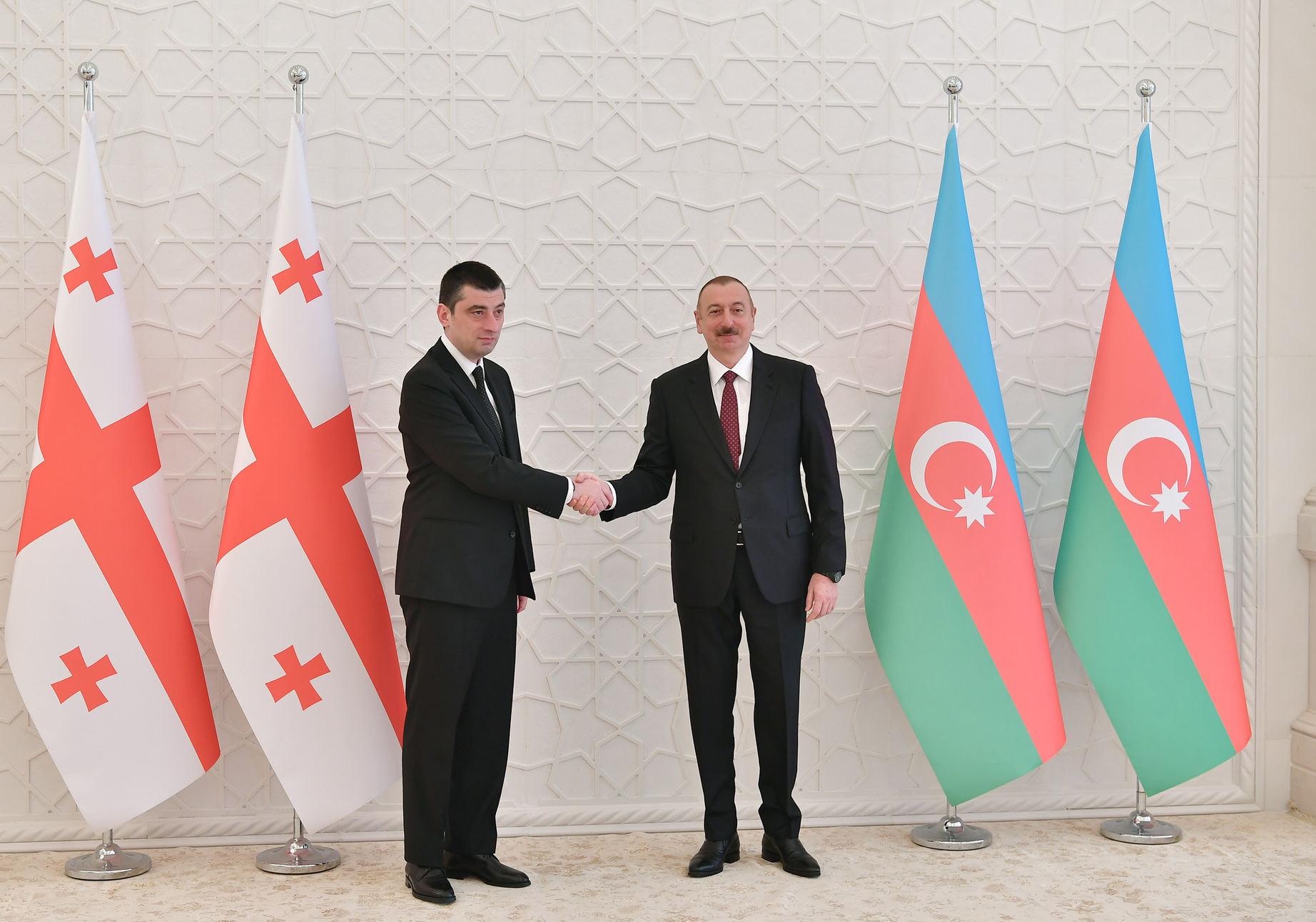 Ilham Aliyev and Prime Minister of Georgia Giorgi Gaharia held a one-on-one meeting